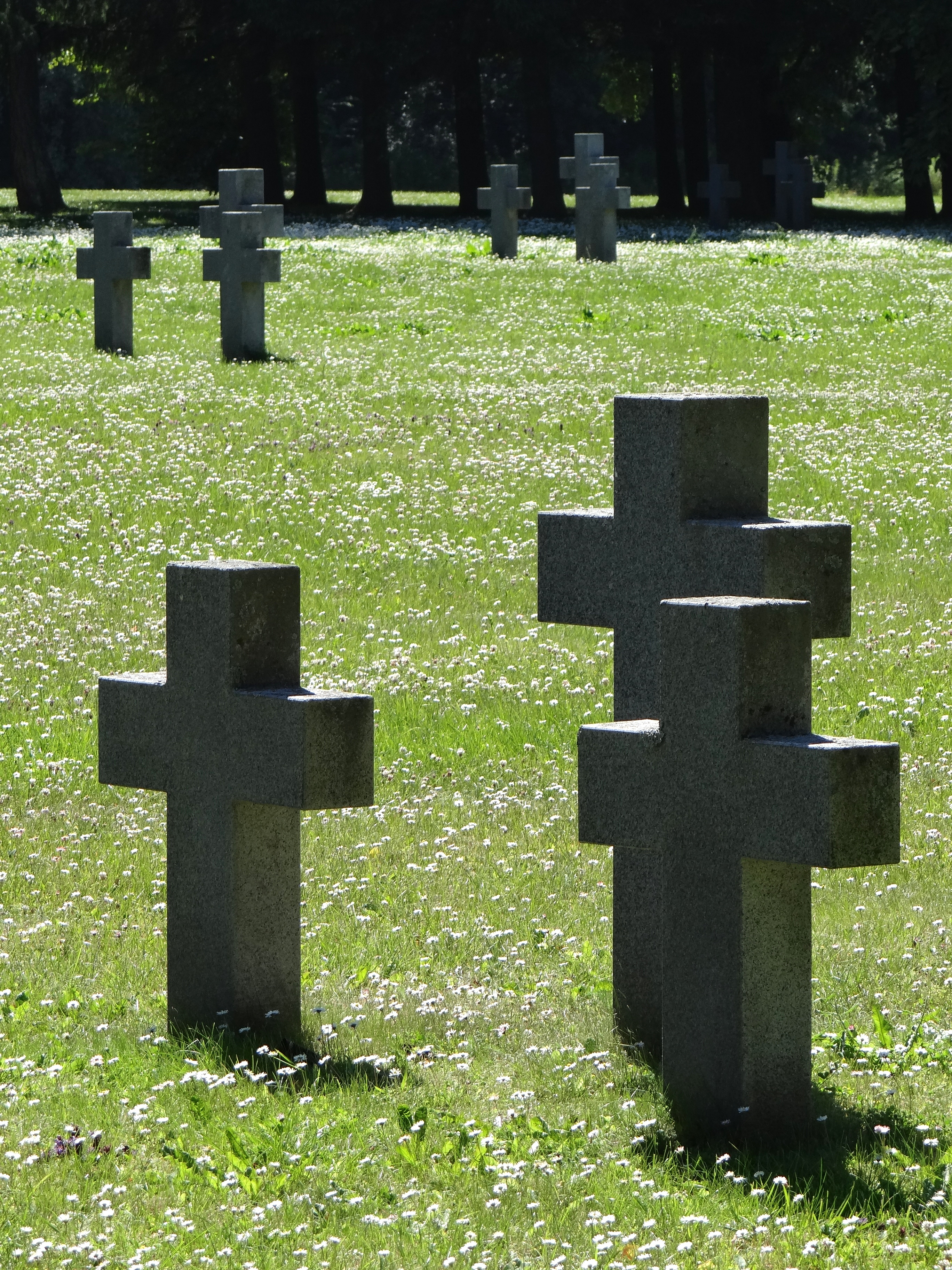 Estonian Gravestones at Maarjamäe War Memorial. Kesklinn, Tallinn, Estonia